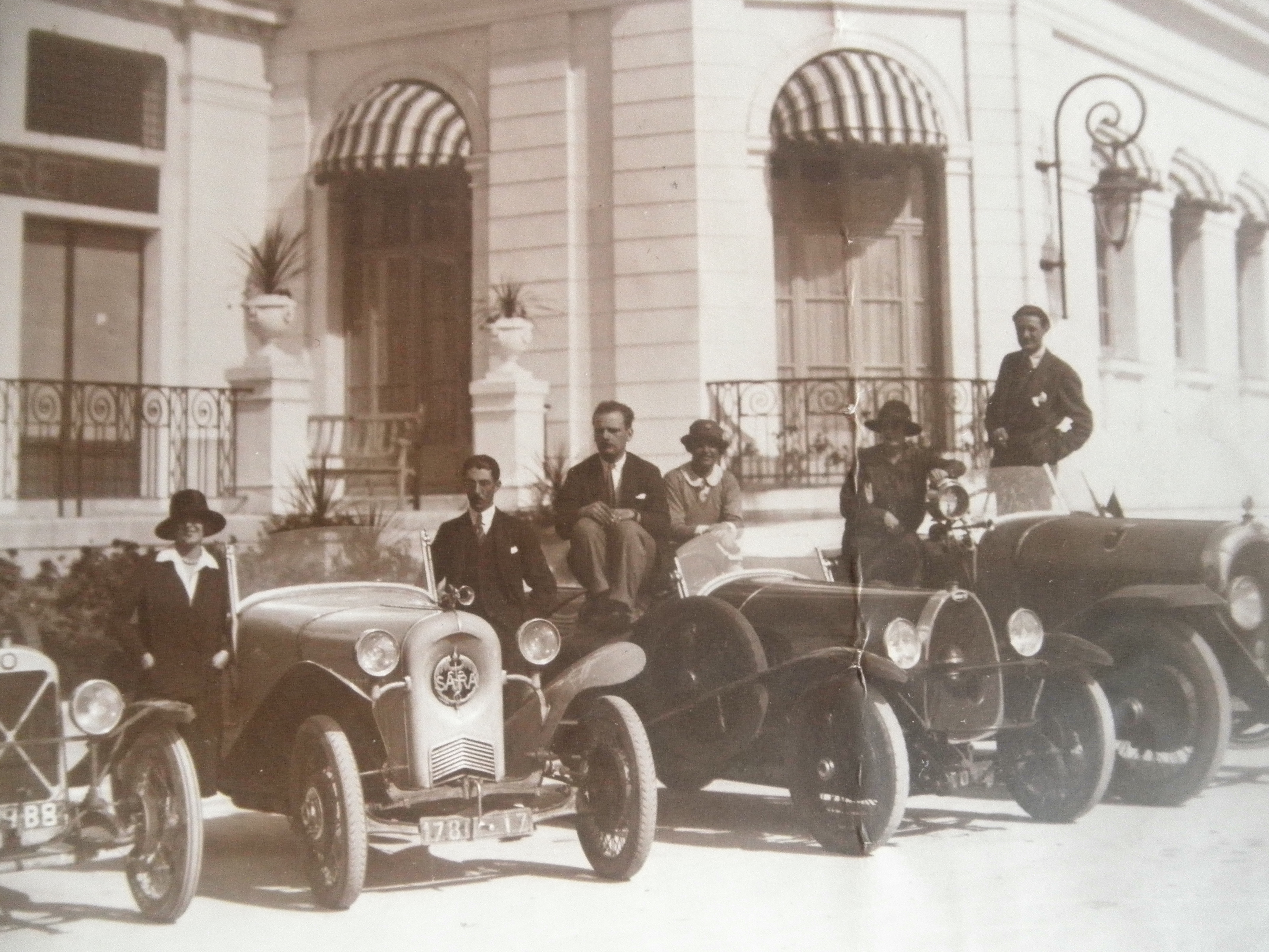 1925 Bugatti